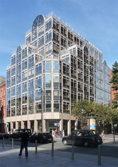 By Holford Associates, 1986, and, with its pink granite piers and reflective glass, Pevsner said, "the earliest example of brash 1980s glitter in the centre."